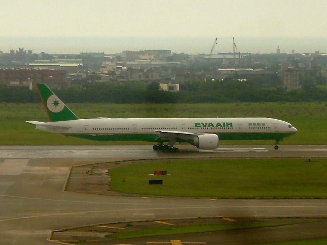 EVA Air Boeing 777-300ER